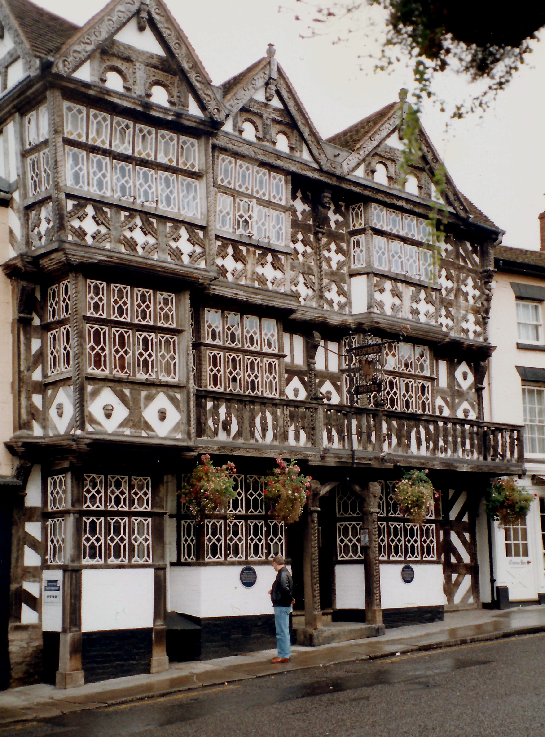 The Feathers Hotel, Ludlow, Shropshire